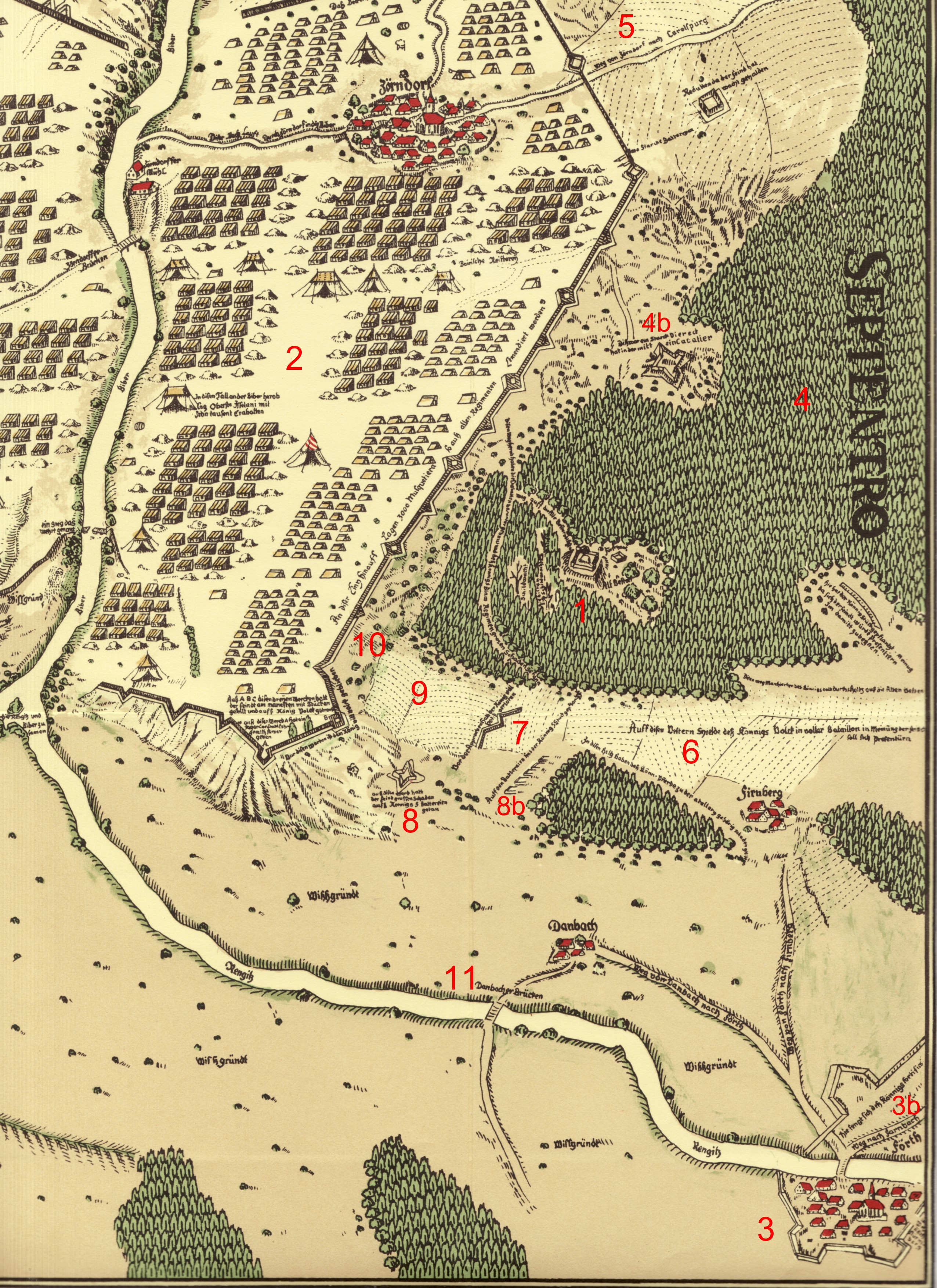 Battle of the Alte Veste or Battle of Fuerth 1632.